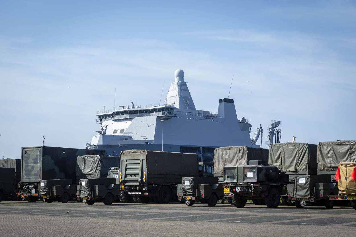 With the deployment of the largest navy ship Zr. Ms. Karel Doorman, the Ministry of Defence will offer aid to the Caribbean parts of the Netherlands which have been inflicted by the coronavirus at the end of April